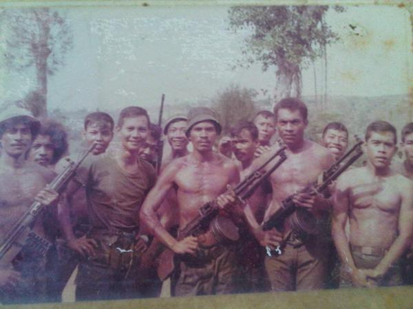 Prabowo on his first tour of East Timor with Nanggala 10 company